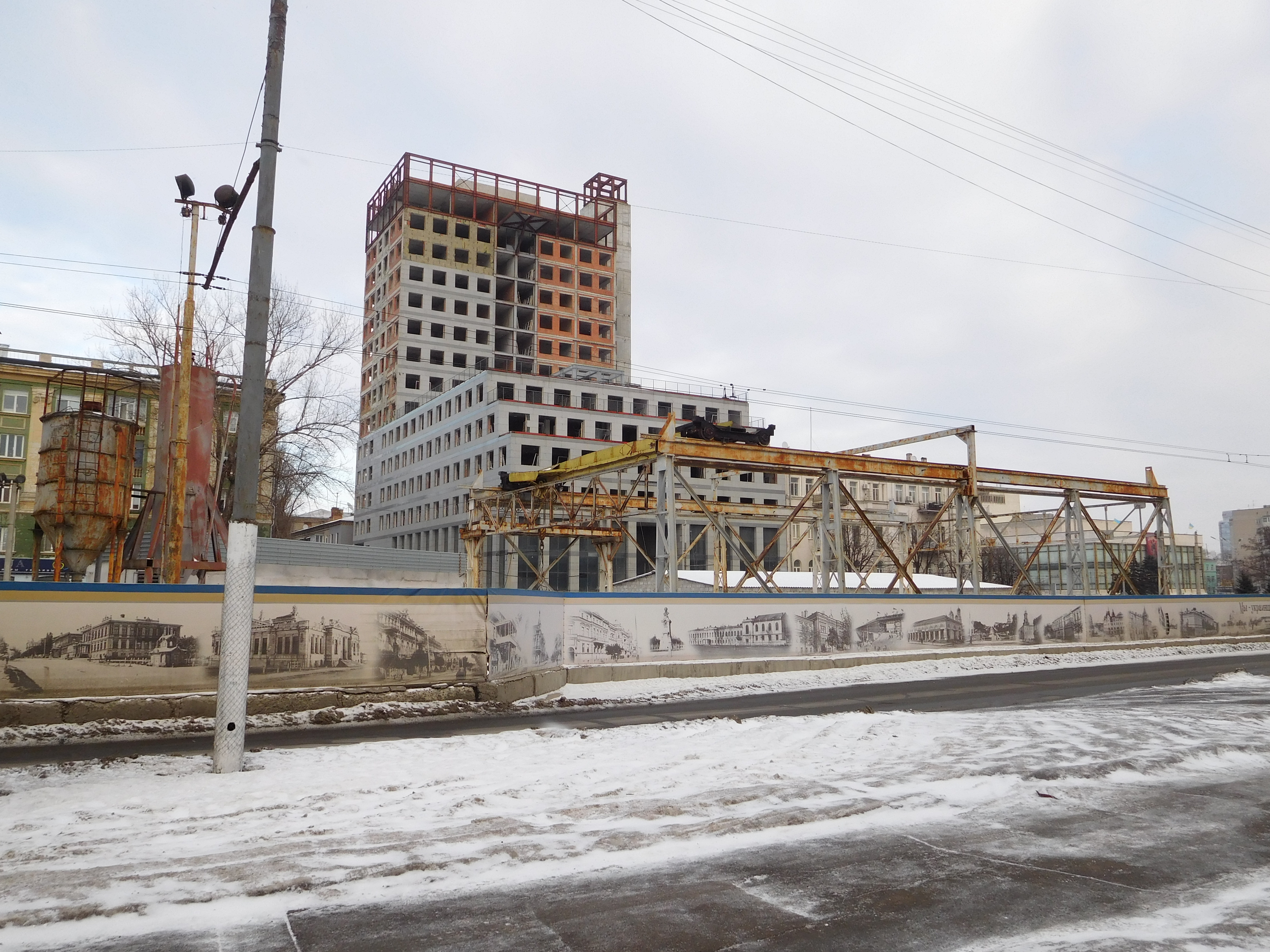 Construction shaft for future Teatralna metro station, as seen on 26th January 2017